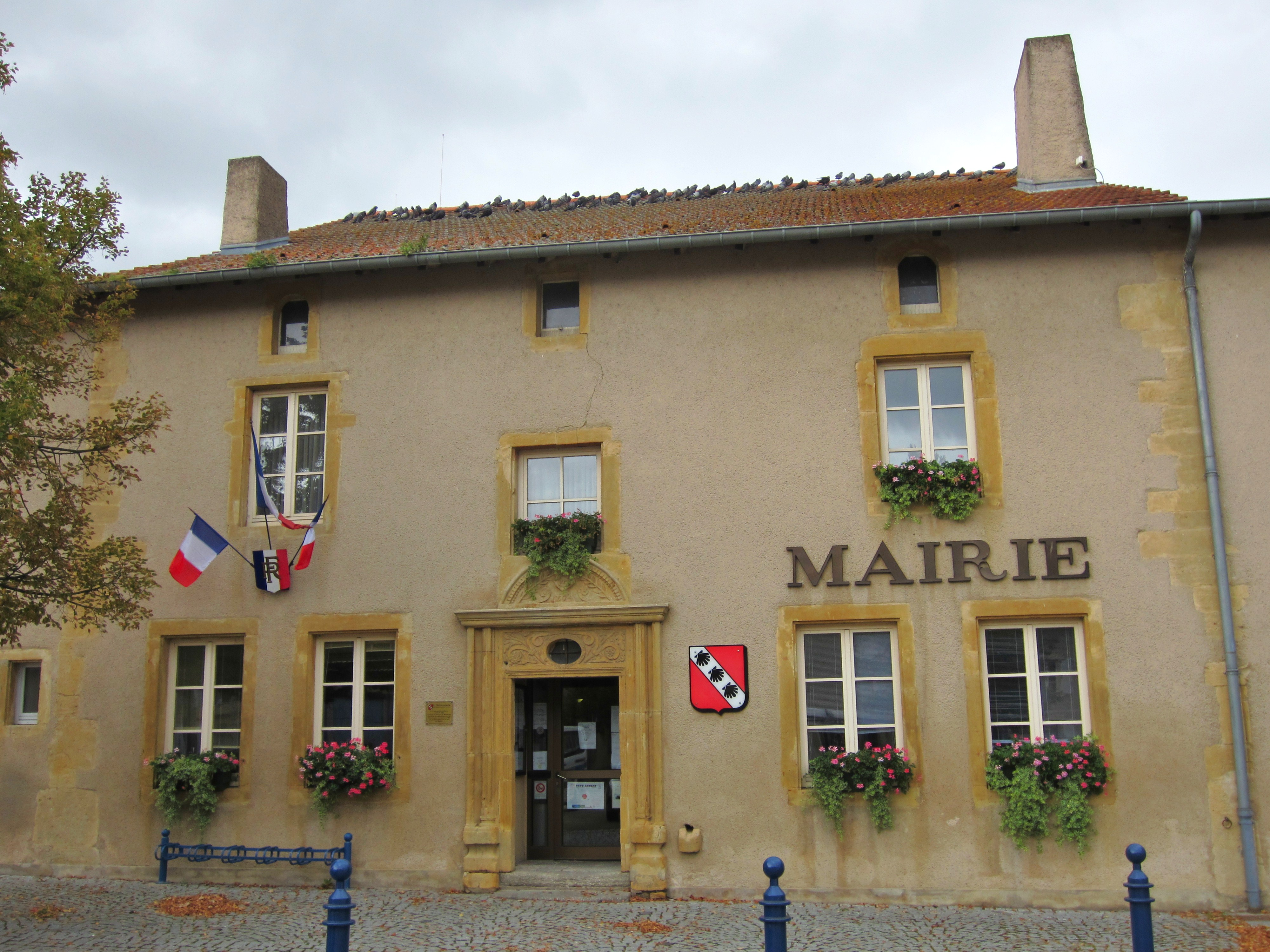 Description mairie Ennery Date8 September 2011Sourcemon appareil photoAuthorAimelaimePermission(Reusing this file) mairie Ennery